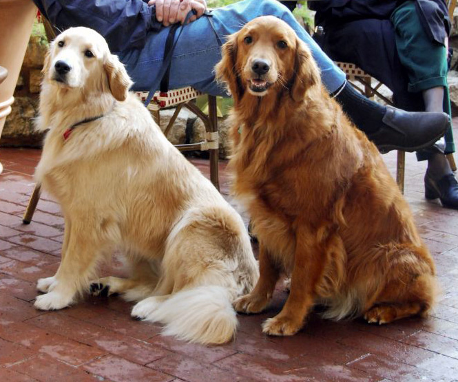 Two Golden RetrieversLovely Couples & Their Dogs -Carmel-DSC_1322